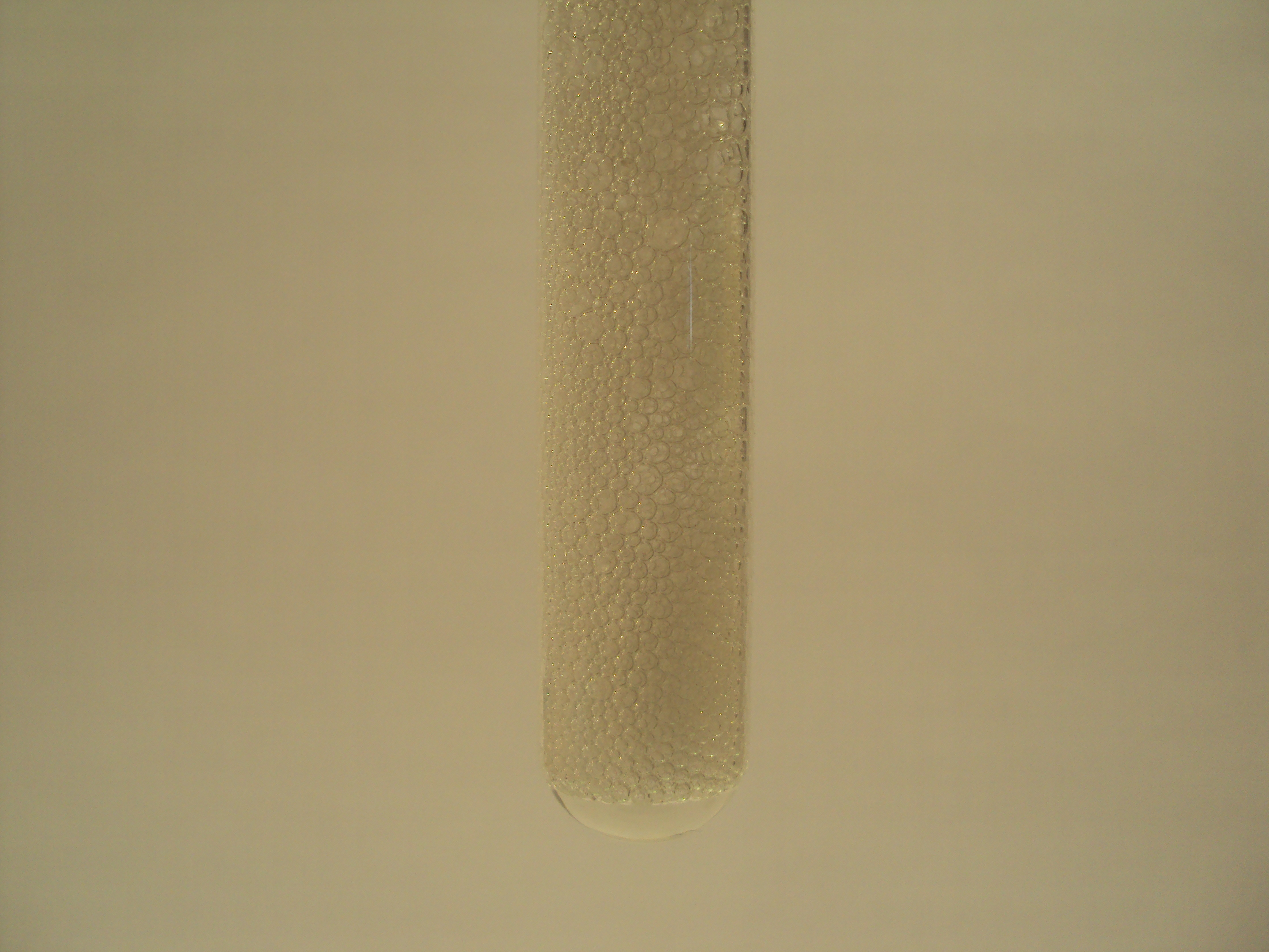 HCl & calciumcarbonate reaction